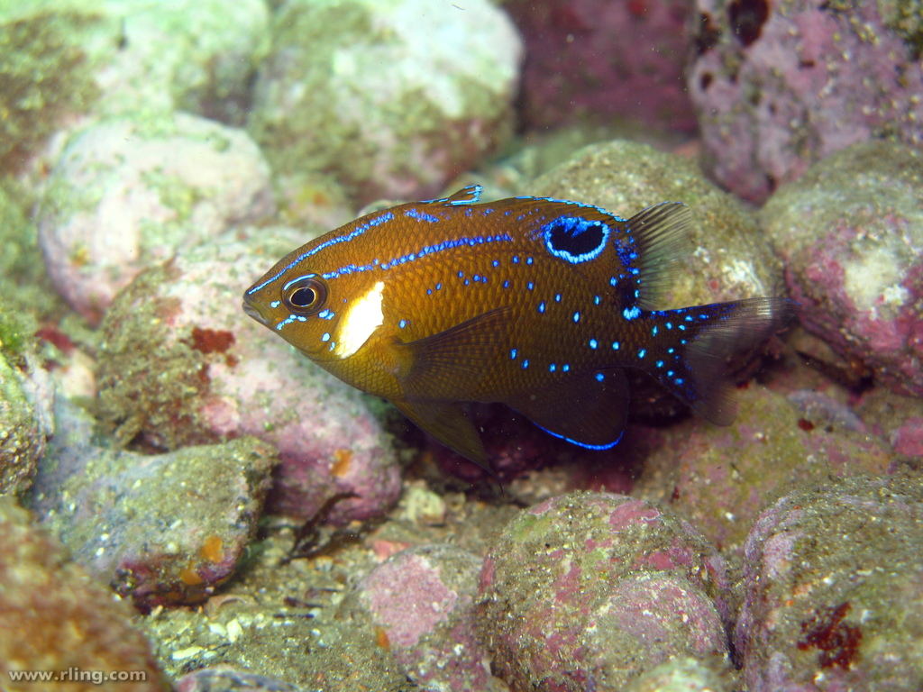 A juvenile White-ear Parma (Parma microlepis). Fairy Bower, Manly, NSW